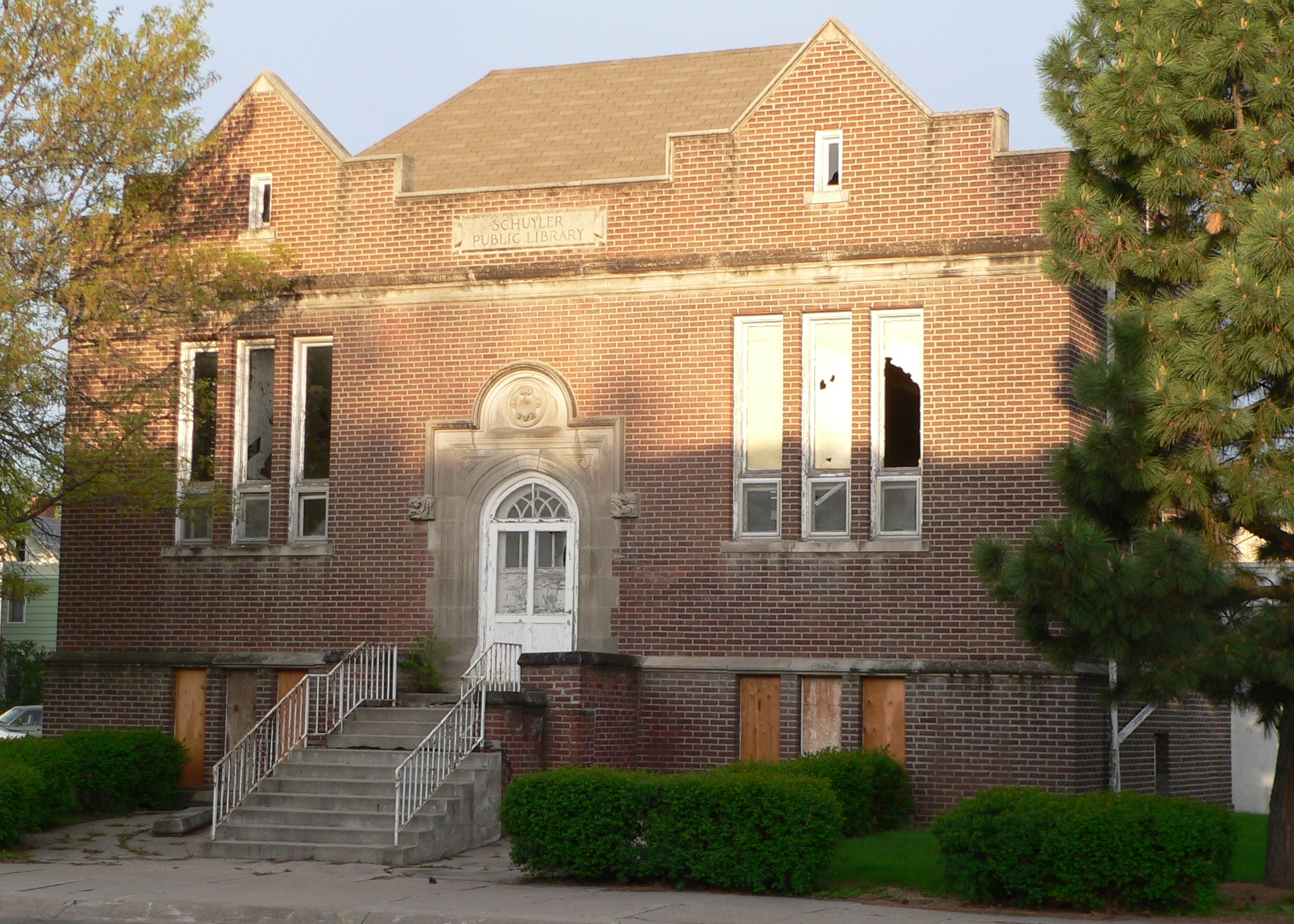 Schuyler Carnegie Library in Schuyler, Nebraska; seen from the northeast. The Tudor Revival building was constructed in 1911, and is listed in the National Register of Historic Places. It is no longer in use as Schuyler's library, and appeared to be abandoned at the time the photograph was taken.